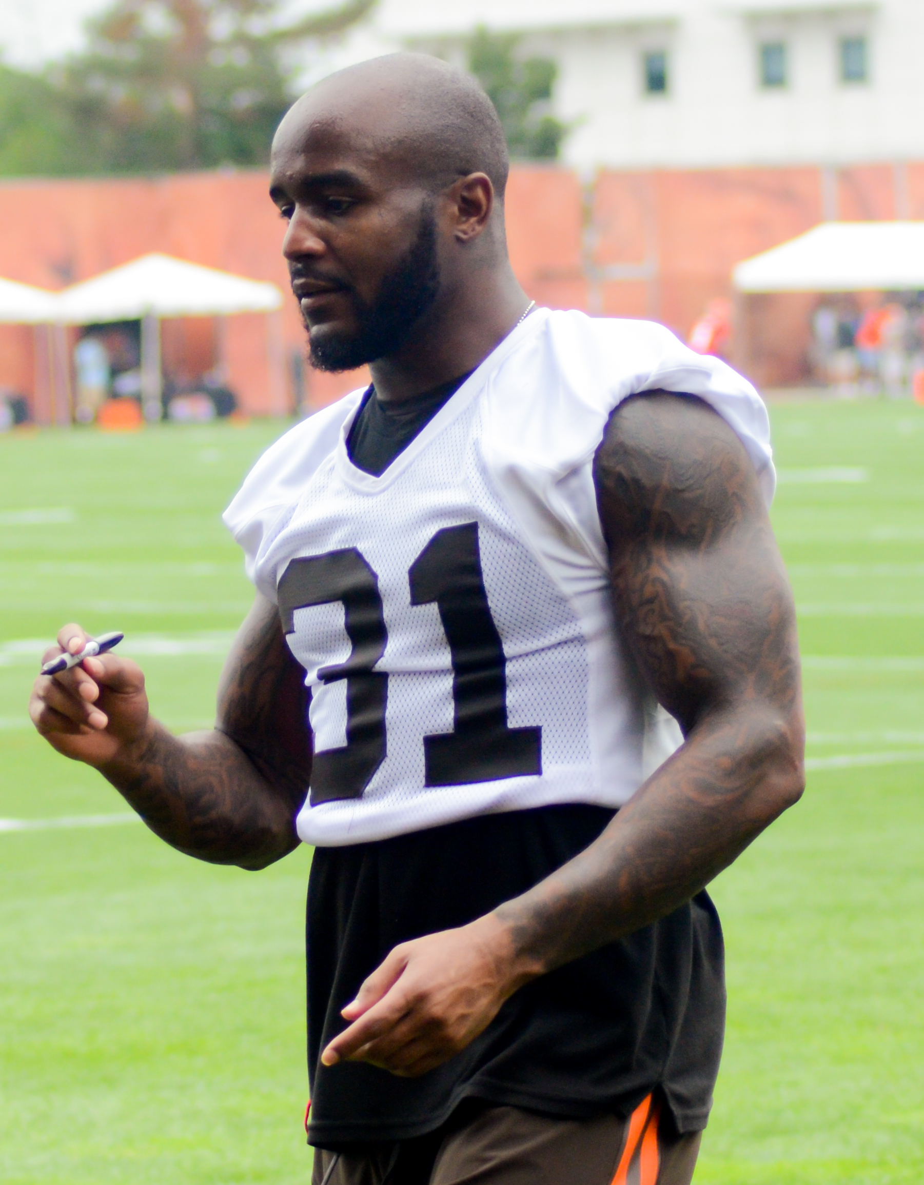 BrownsCamp14